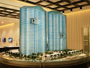 A photo of the model design for Panorama Towers, a high-rise luxury residential complex in Las Vegas